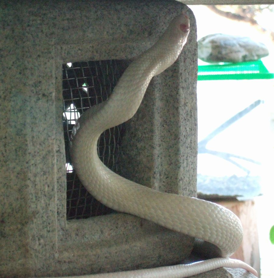 "Shiro-hebi"(albino of E.climacophora) at Iwakuni, Japan(岩国のシロヘビ)1 of 2